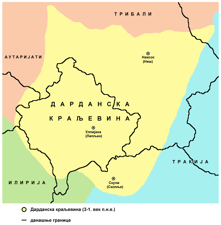 Ancient kingdom of Dardania that existed from 3rd to 1st century BC compared to modern borders.